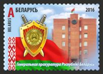 Attorney General's Office of the Republic of Belarus.